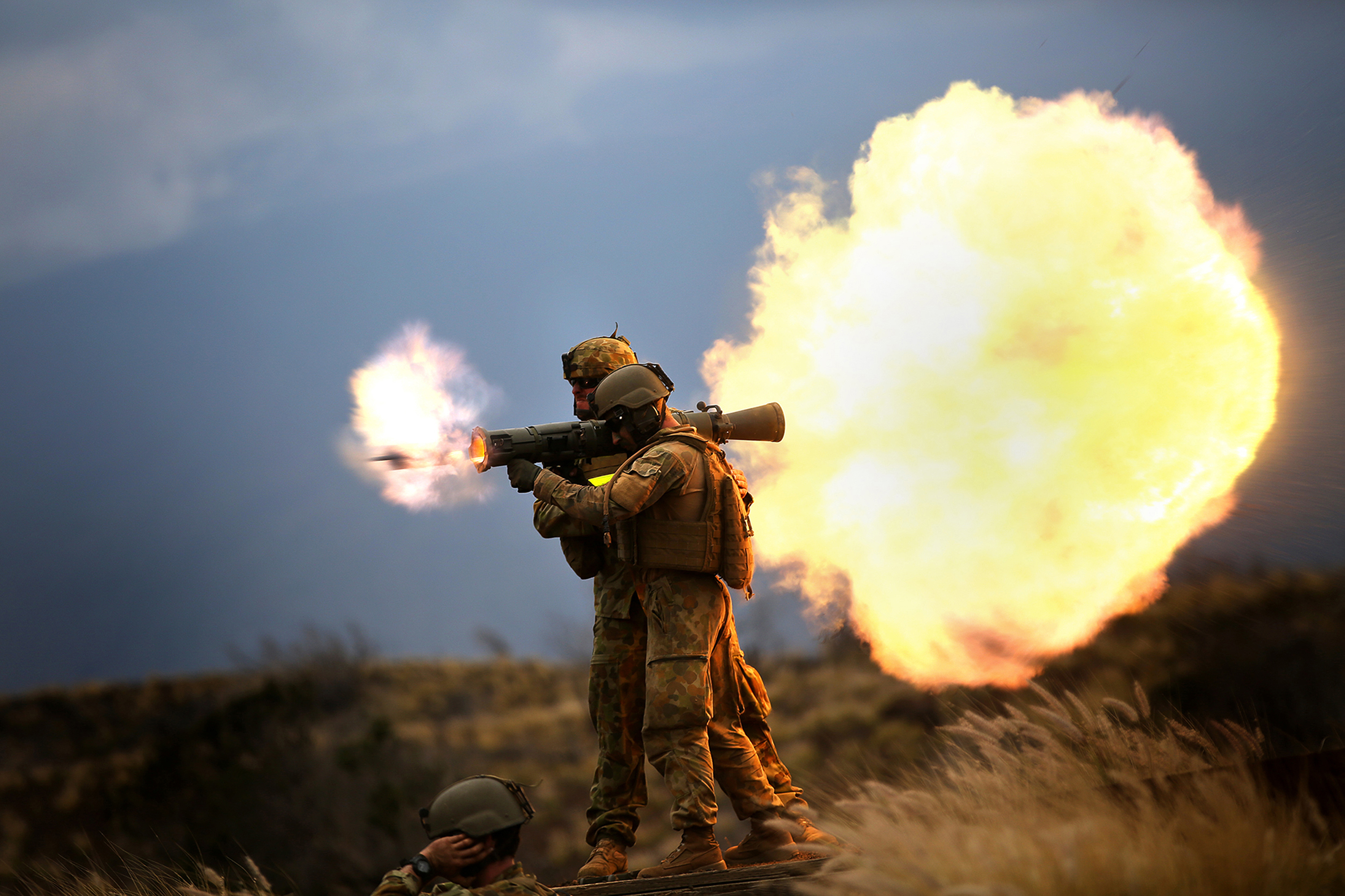 Australian soldiers assigned to 5th Battalion, Royal Australian Regiment fire an 84 mm M3 Carl Gustave rocket launcher at Range 10, Pohakuloa Training Area, Hawaii, July 20, 2014, during Rim of the Pacific (RIMPAC) Exercise 2014. (U.S. Marine photo by Sgt. Matthew Callahan/Released)